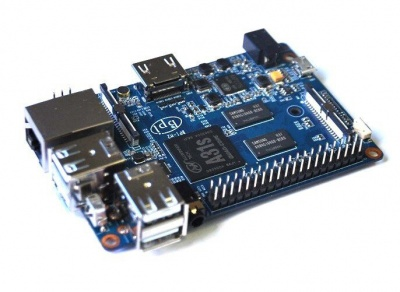 Banana Pi-M2